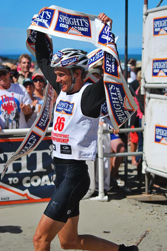 Gordon Walker winning the Coast to Coast in 2010